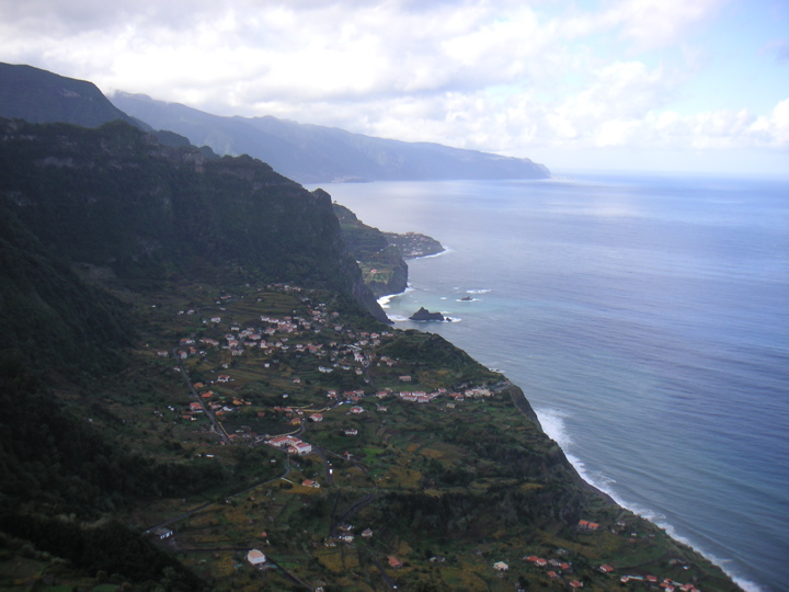 The vistas along Madeira's northern coast just kept getting better. Here the road pulls out to this broad vista of this little scooped out bowl hung 800 feet above the ocean containing this village called Arco de São Jorge. Beyond that is the whole stretch of the northern coastline to Porto Moniz in the far west.